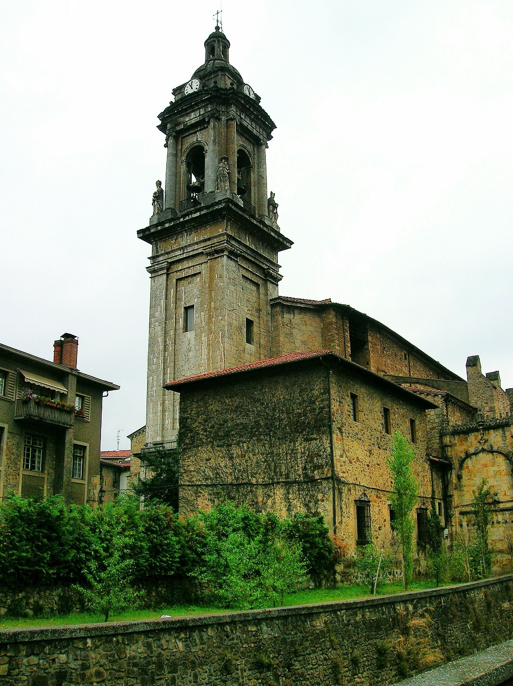 The Church of Archangel Michael in Oñati, Basque Country, Spain.